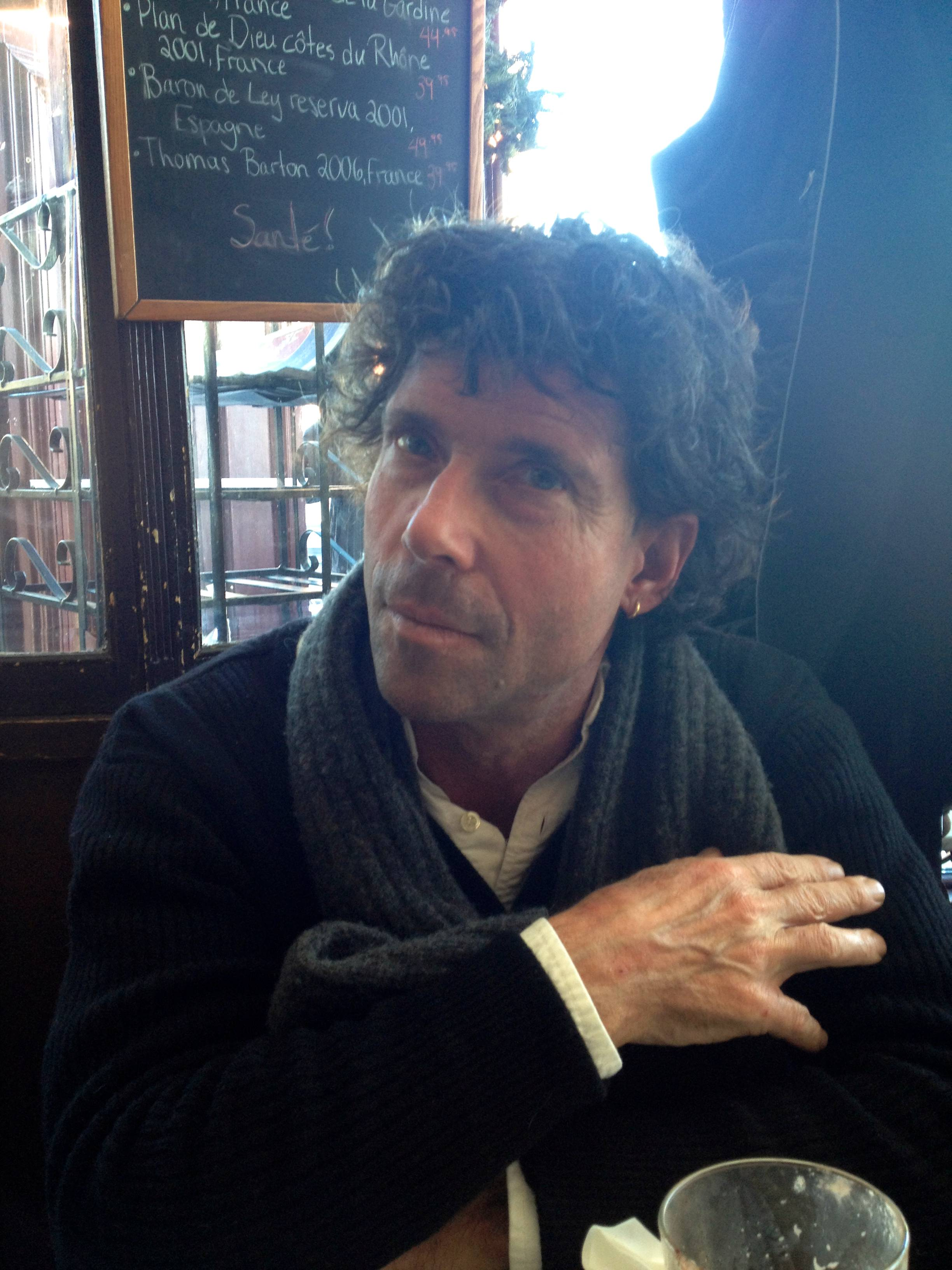 Photo of Robert Barsky